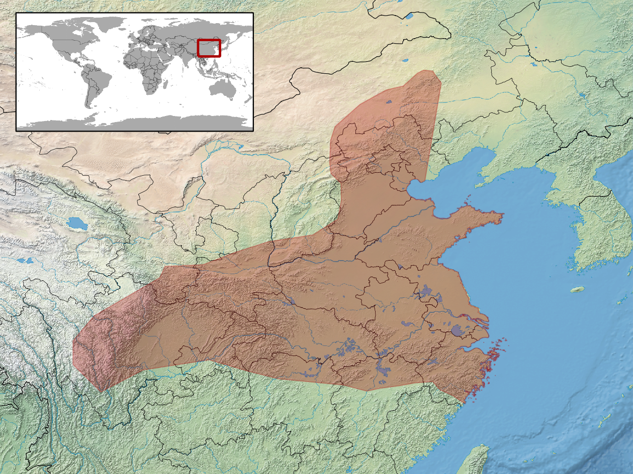 geographic distribution of Elaphe bimaculata (Native: China (Anhui, Chongqing, Gansu, Hebei, Henan, Hubei, Hunan, Jiangsu, Jiangxi, Nei Mongol, Shaanxi, Shandong, Shanghai, Shanxi, Sichuan, Zhejiang))